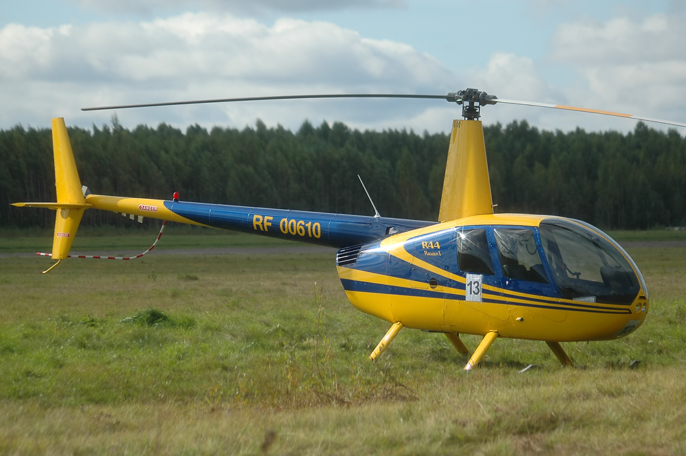 Robinson R44